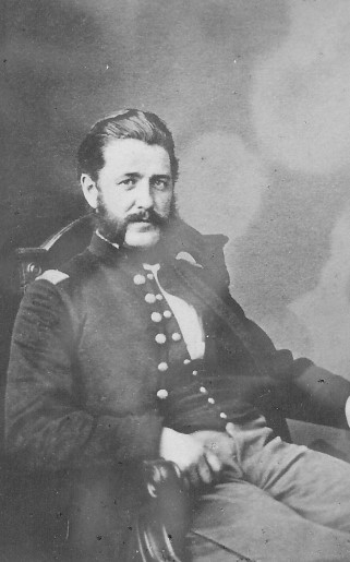 Swedish artist and officer of the Union army in the American Civil War, Johan "Janne" Hollertz, 1832-1891